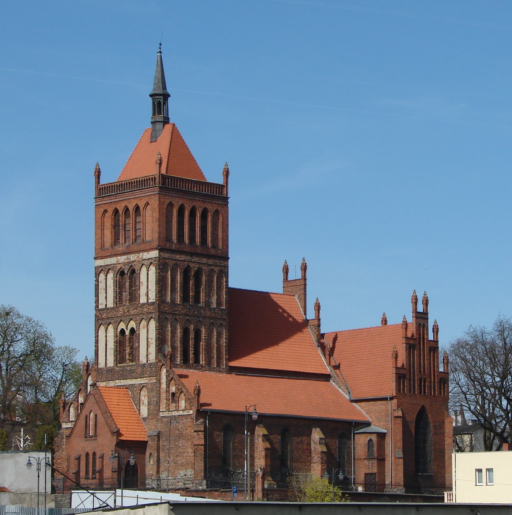 Chełmża, Toruń county, St Nicholas church, Built XIII-XIV century.